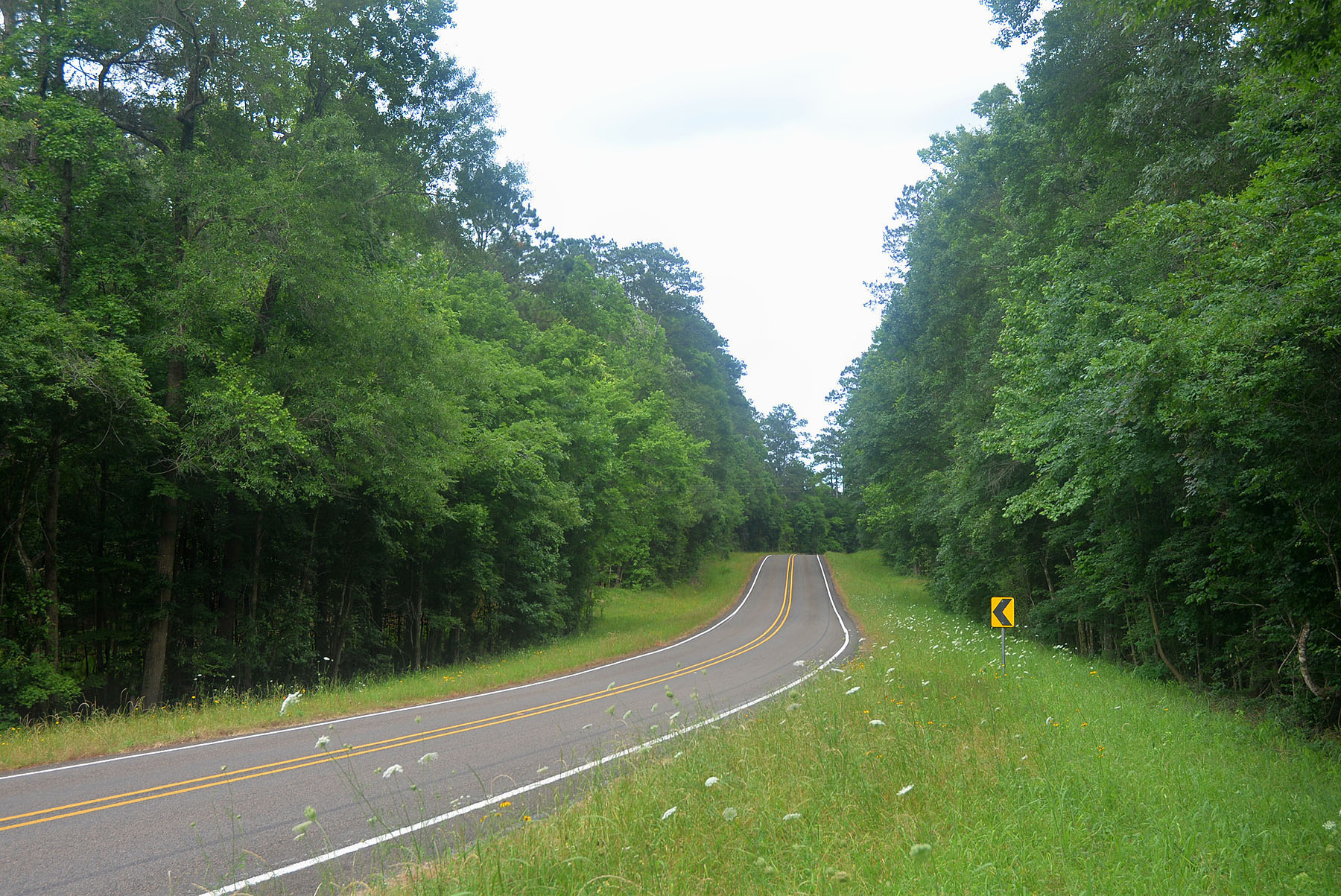 Texas State Highway 1276 in the Big Thicket National Preserve, Big Sandy Creek Unit, Polk County, Texas, USA. Photographed on 12 May 2020 by William L. Farr